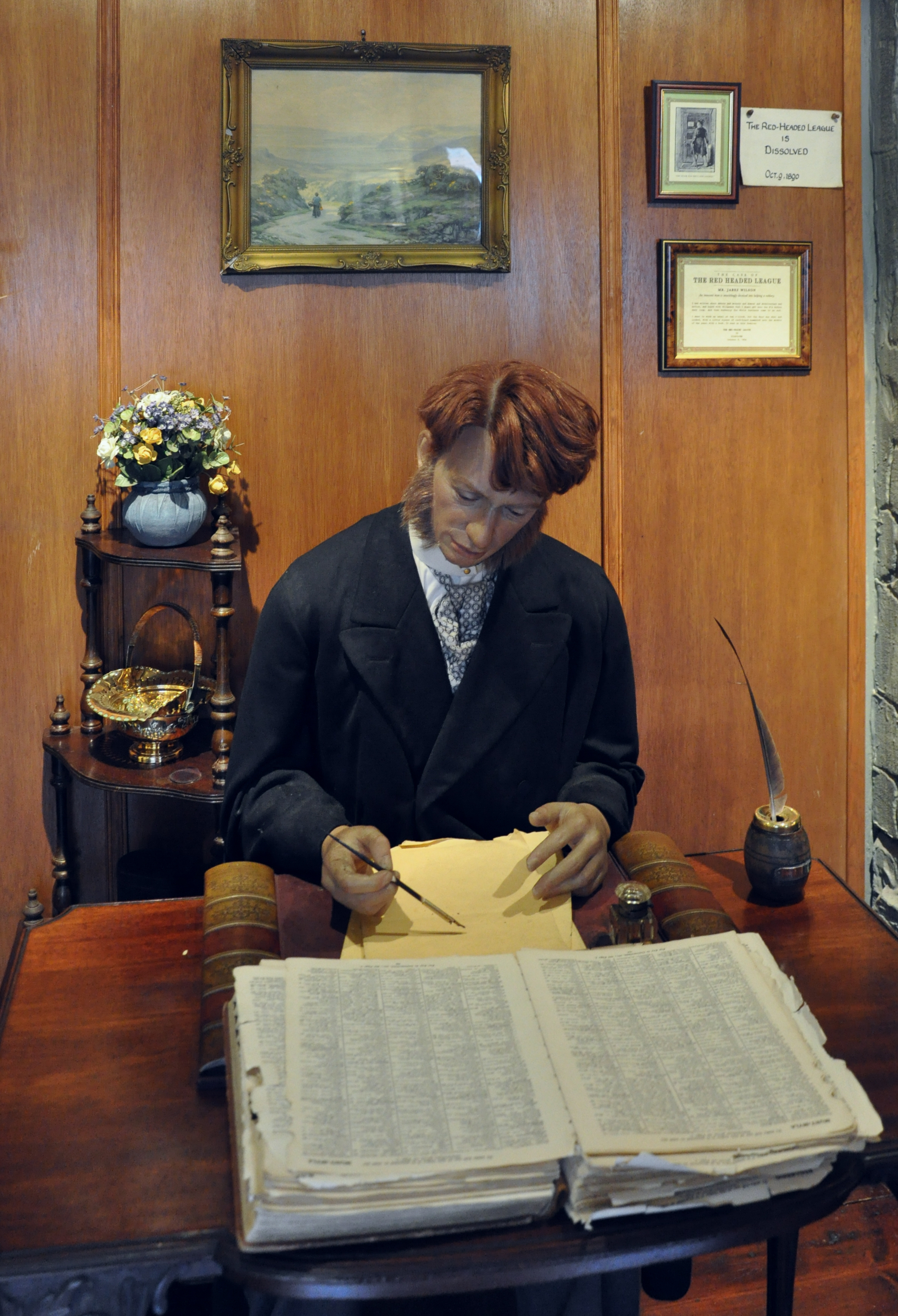 Sherlock Holmes Museum, Baker Street, London Figure illustrating "The Red-Headed League"